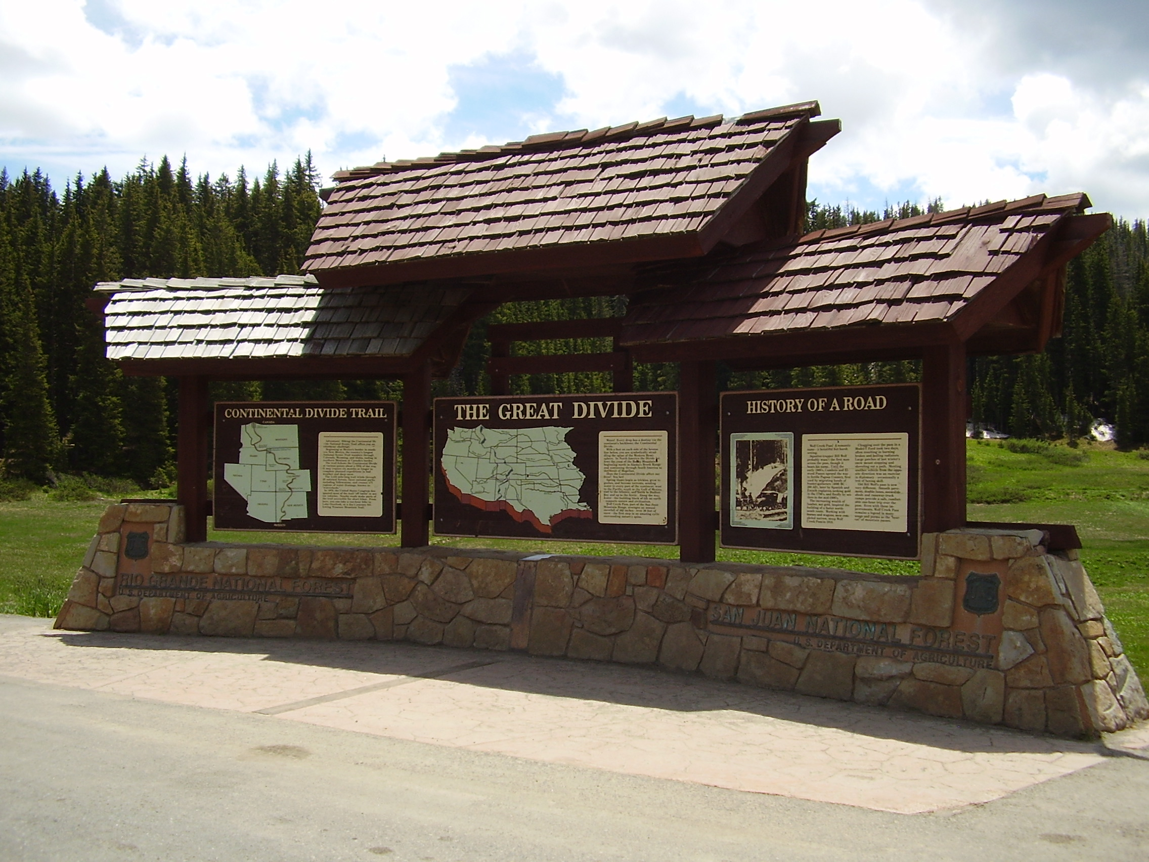 The Great Divide, separating the Rio Grande National Forest and the San Juan National Forest